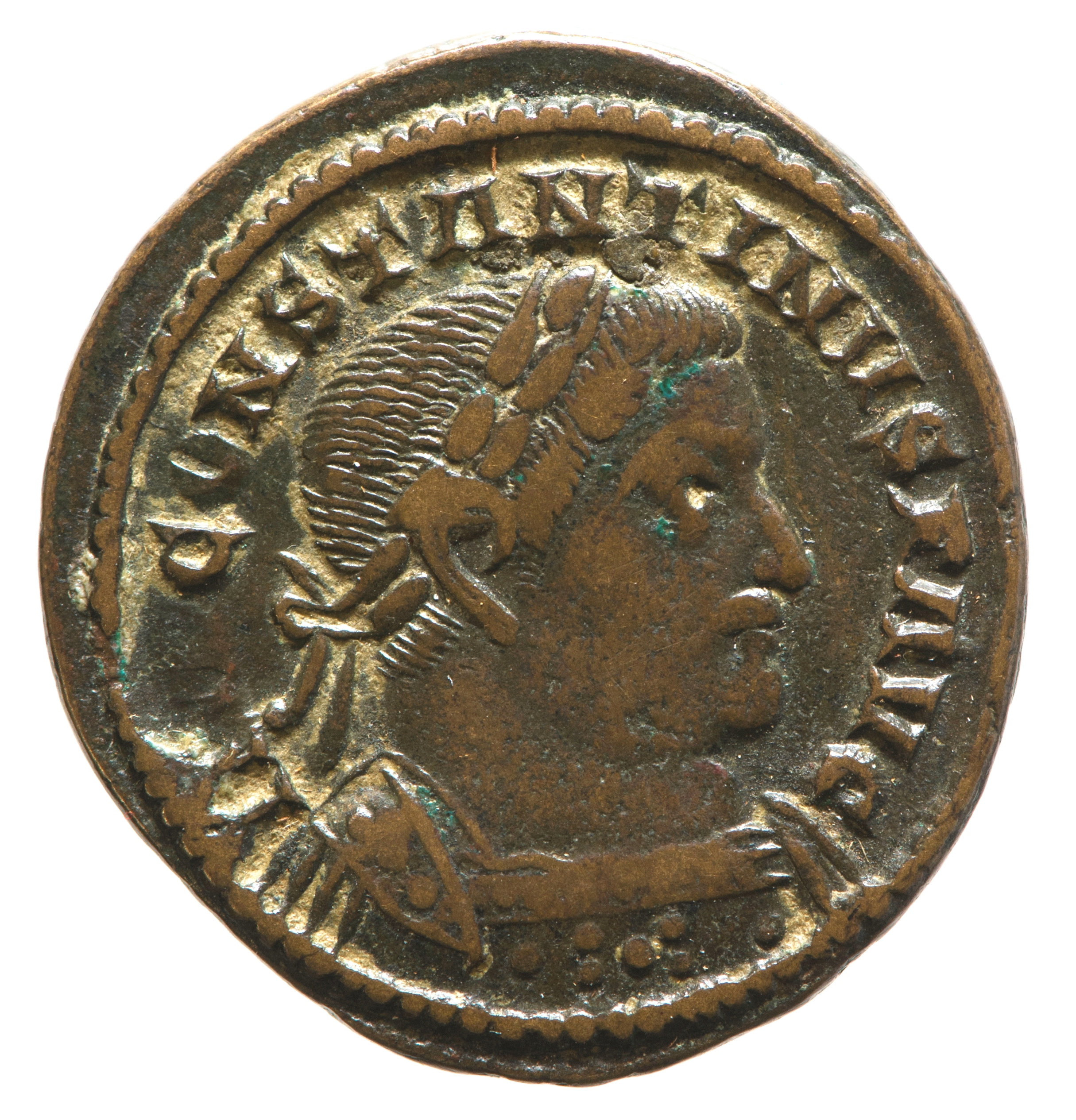 Obverse (front) of a nummus of w: Constantine I Head right laureate curiassed